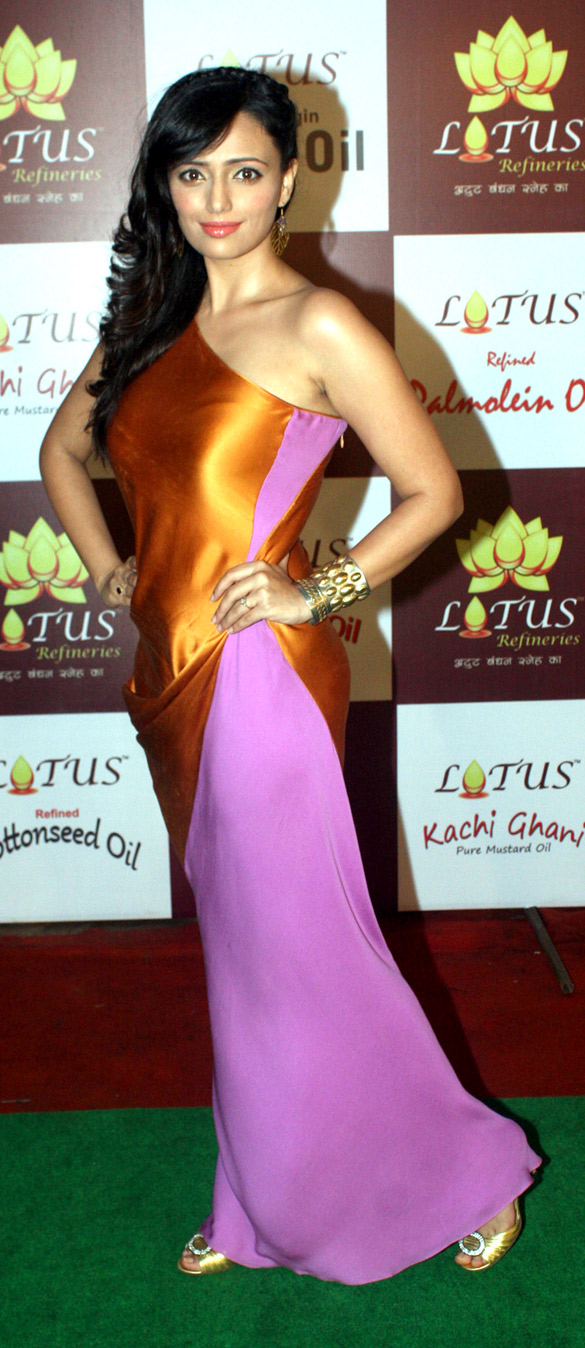 Roshni chopra lotus refinery